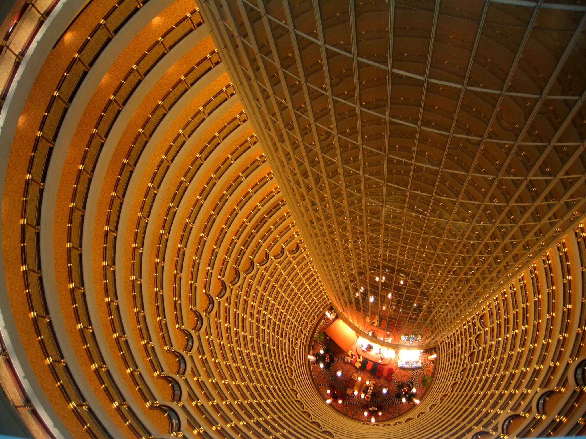 Blick vom 88. Stockwerk des Jin Mao Gebäudes (Shanghai) hinunter auf das 53. Stockwerk - view from the 88th floor of the JinMao building (Shanghai) to the 53rd floor